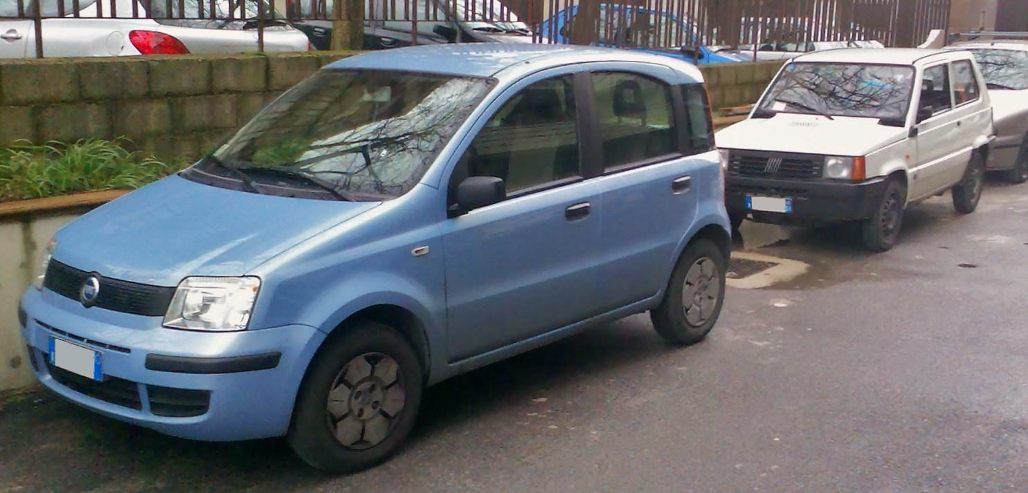 Fiat Panda MK2 and MK1